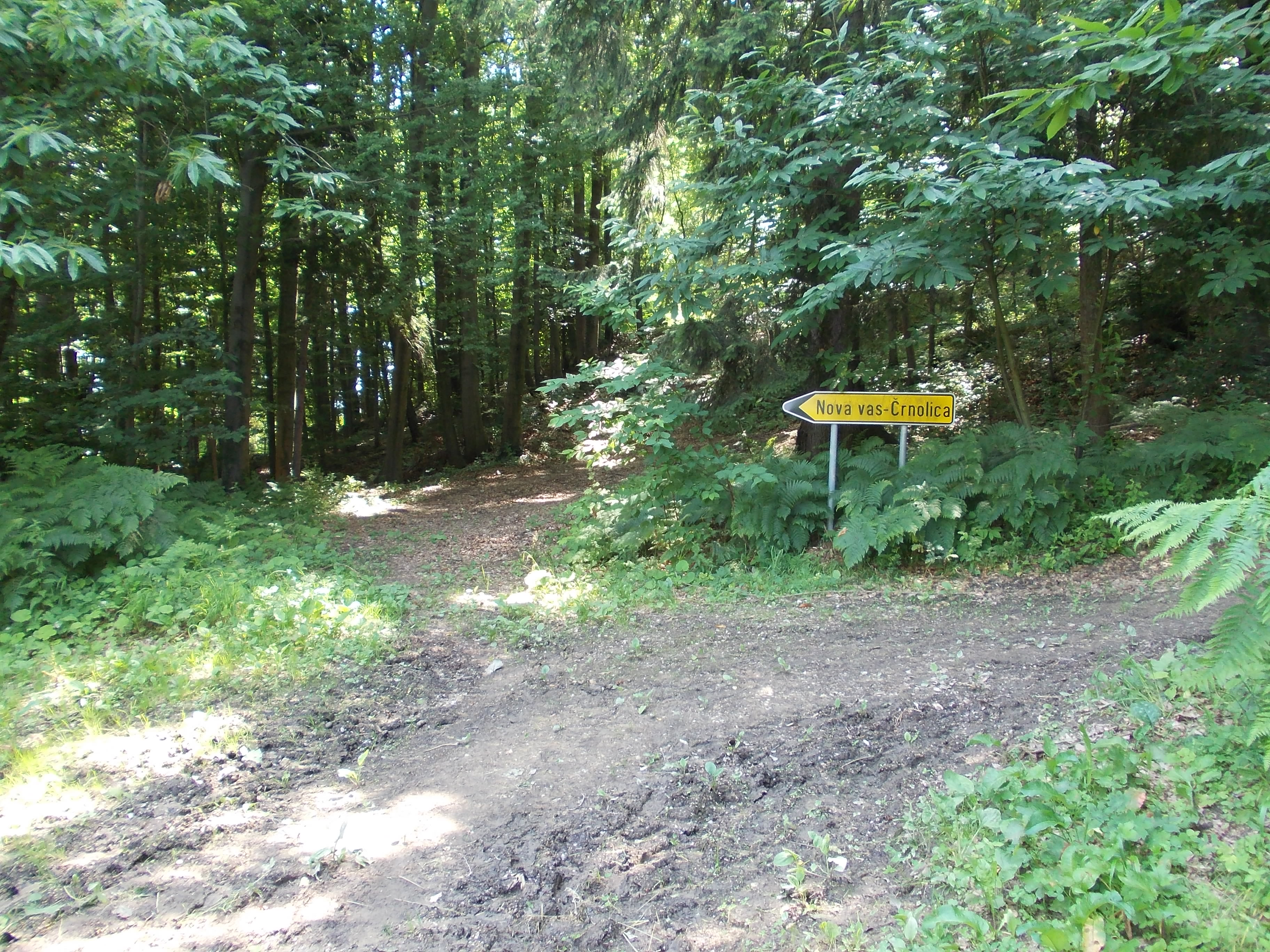 Rifnik Archeological Site